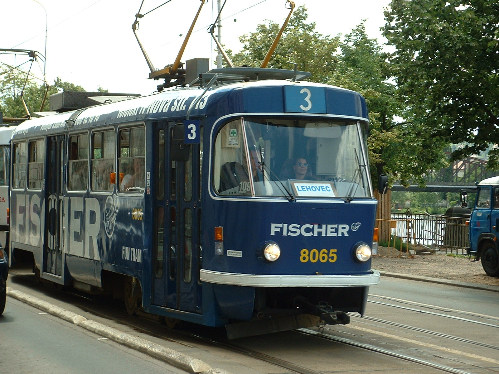 Praha Tram on the Vltava embankment, one of the "Fun Trams", this one as publicity for the Fischer Travel Agency